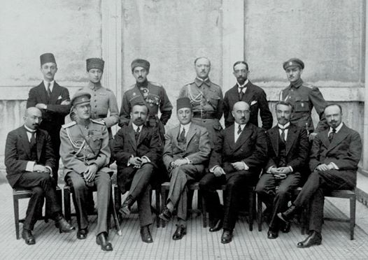 Constantinople delegation in 1918, headed by Avetis Aharonyan cabinet.